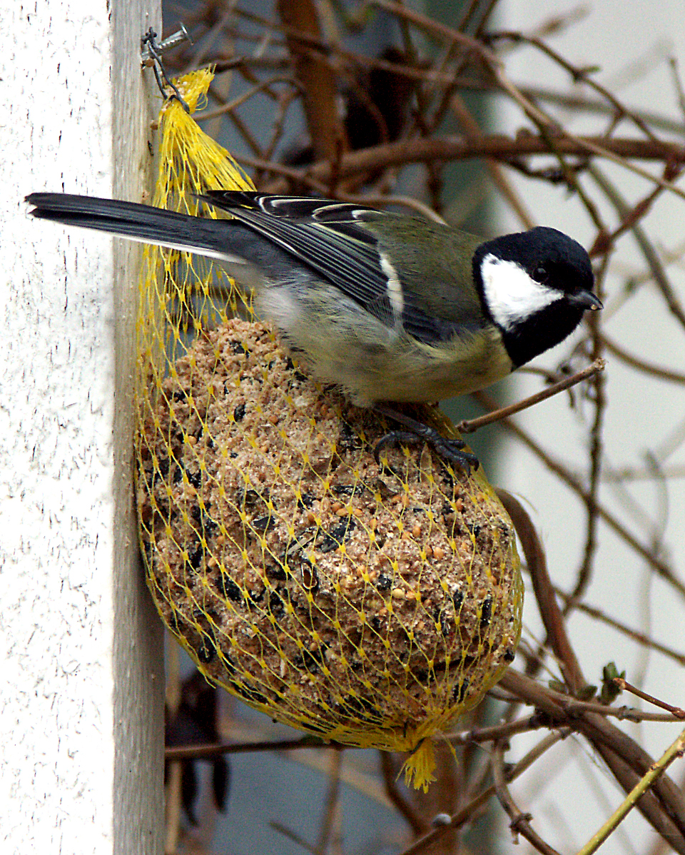 Great tit (Parus major) feeding by a Swedish house.